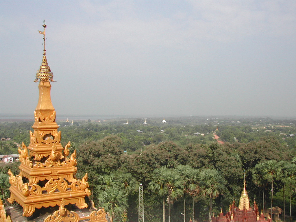 Bago, Myanmar. View from the Mahazedi Paya